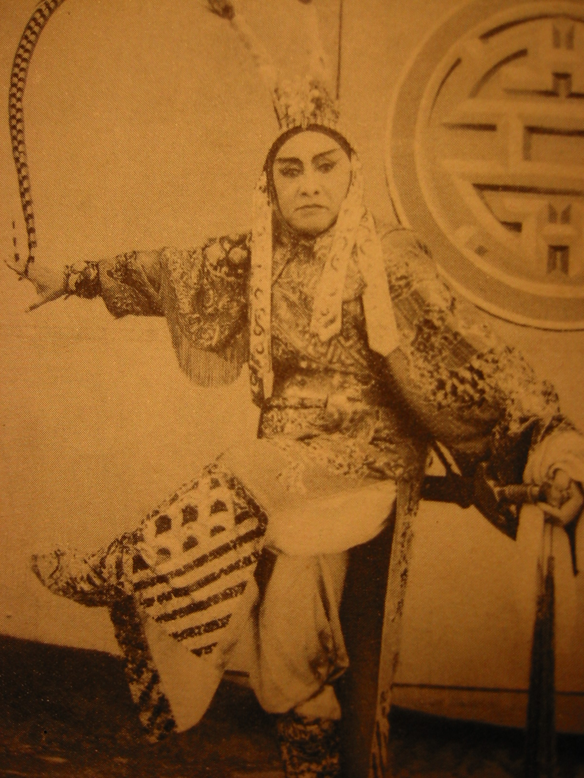 Vietnamese Hát bội theater. Actor Tả Giang playing the role of Lã Bố in "Phụng Nghi Đình".